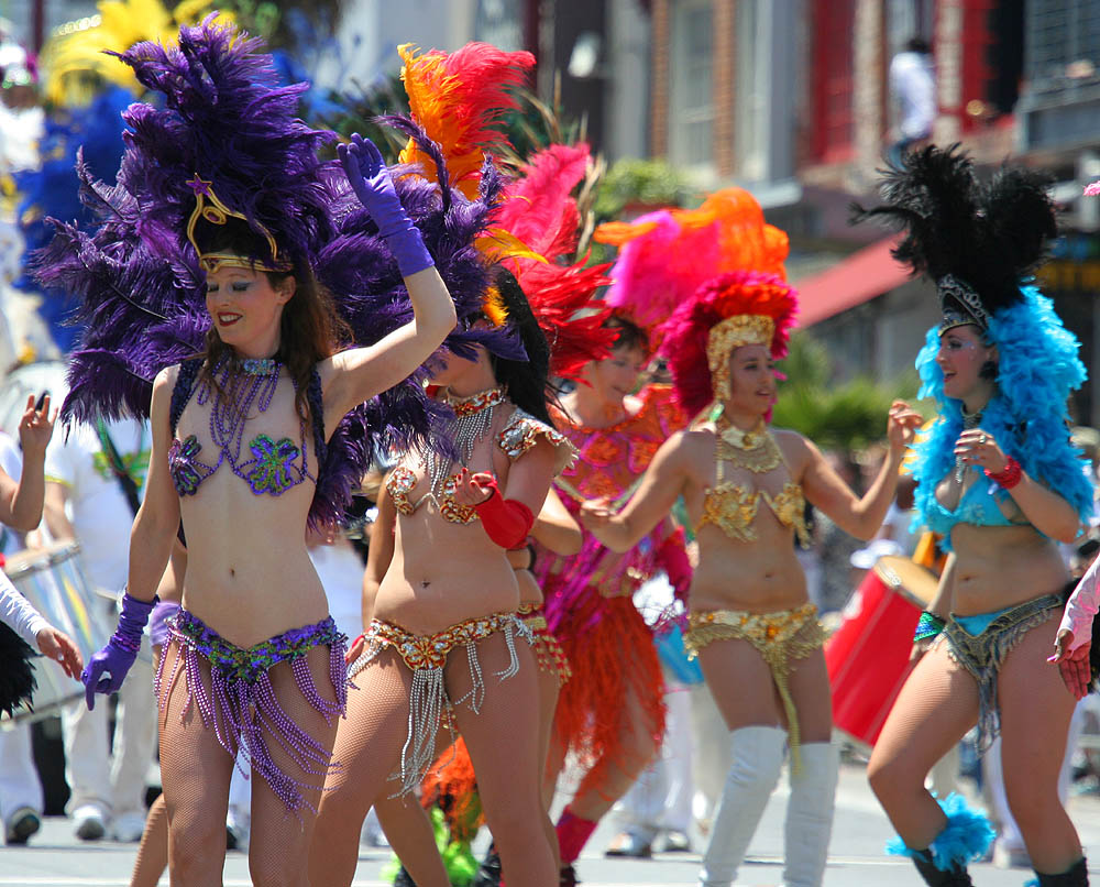 One of the many dancing scenes at the Carnaval San Francisco, 2006, USA.